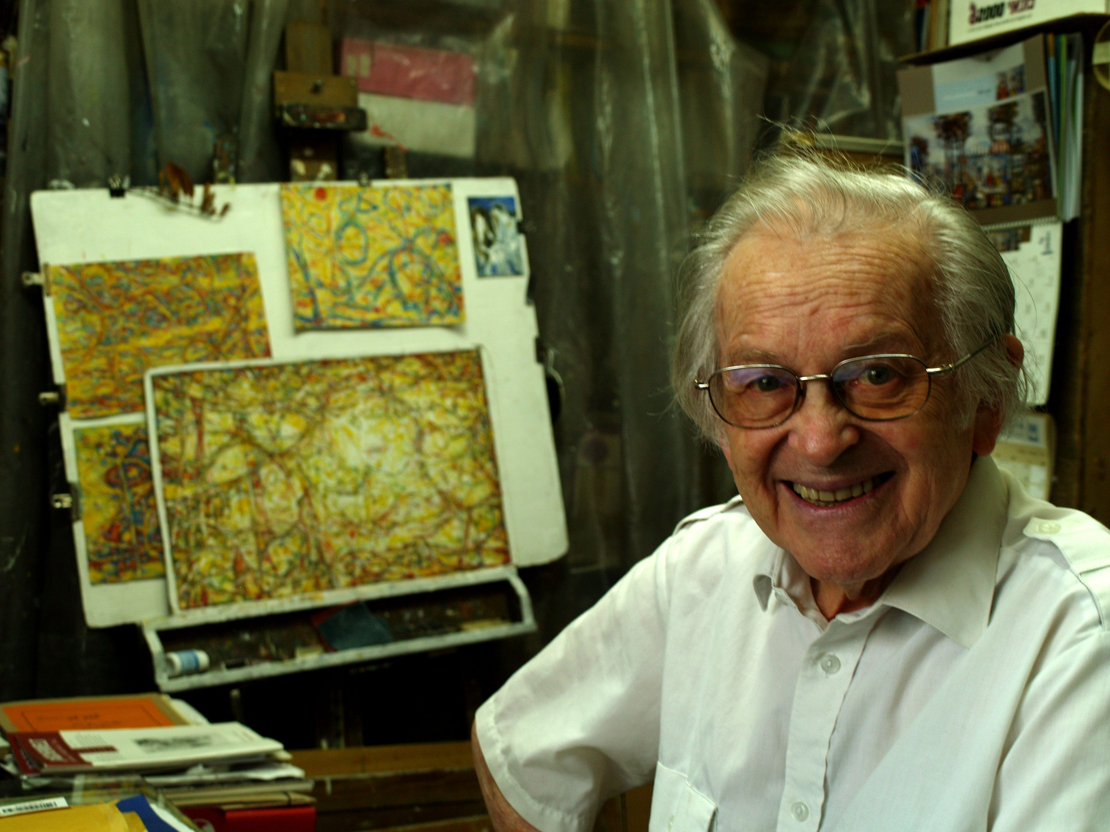 Jehuda Bacon in his studio in Jerusalem, Israel in August 2008.